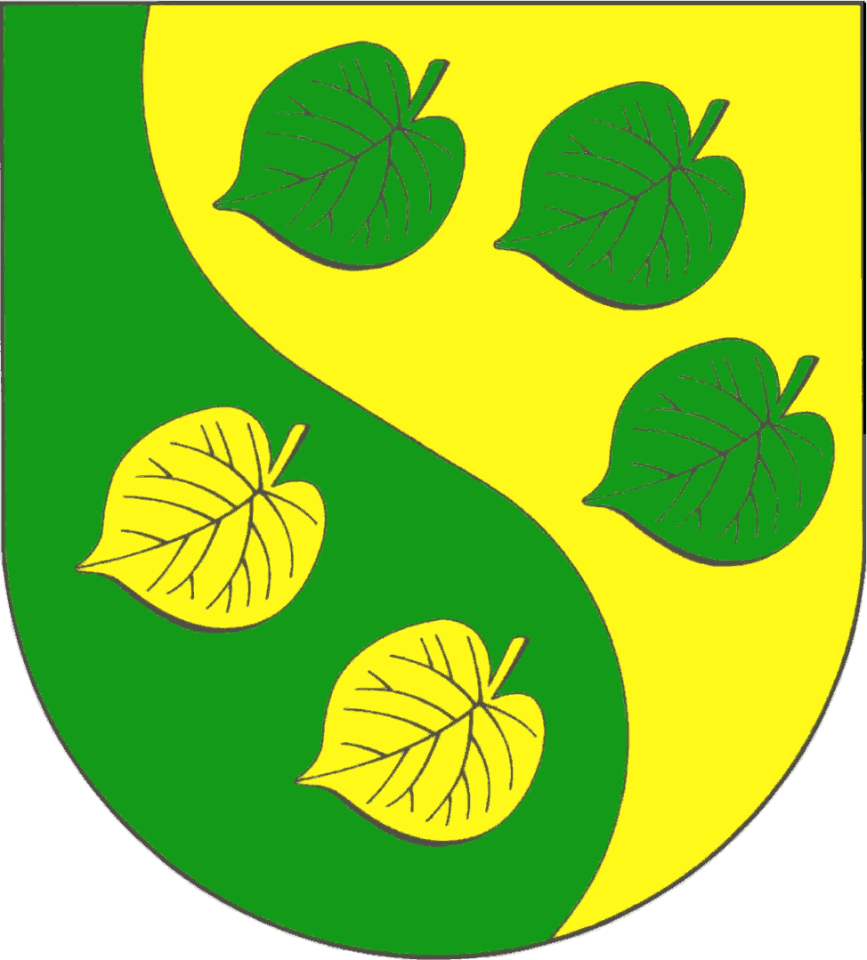 Coat of arms of the municipality Schlotfeld in Schleswig-Holstein, Germany.